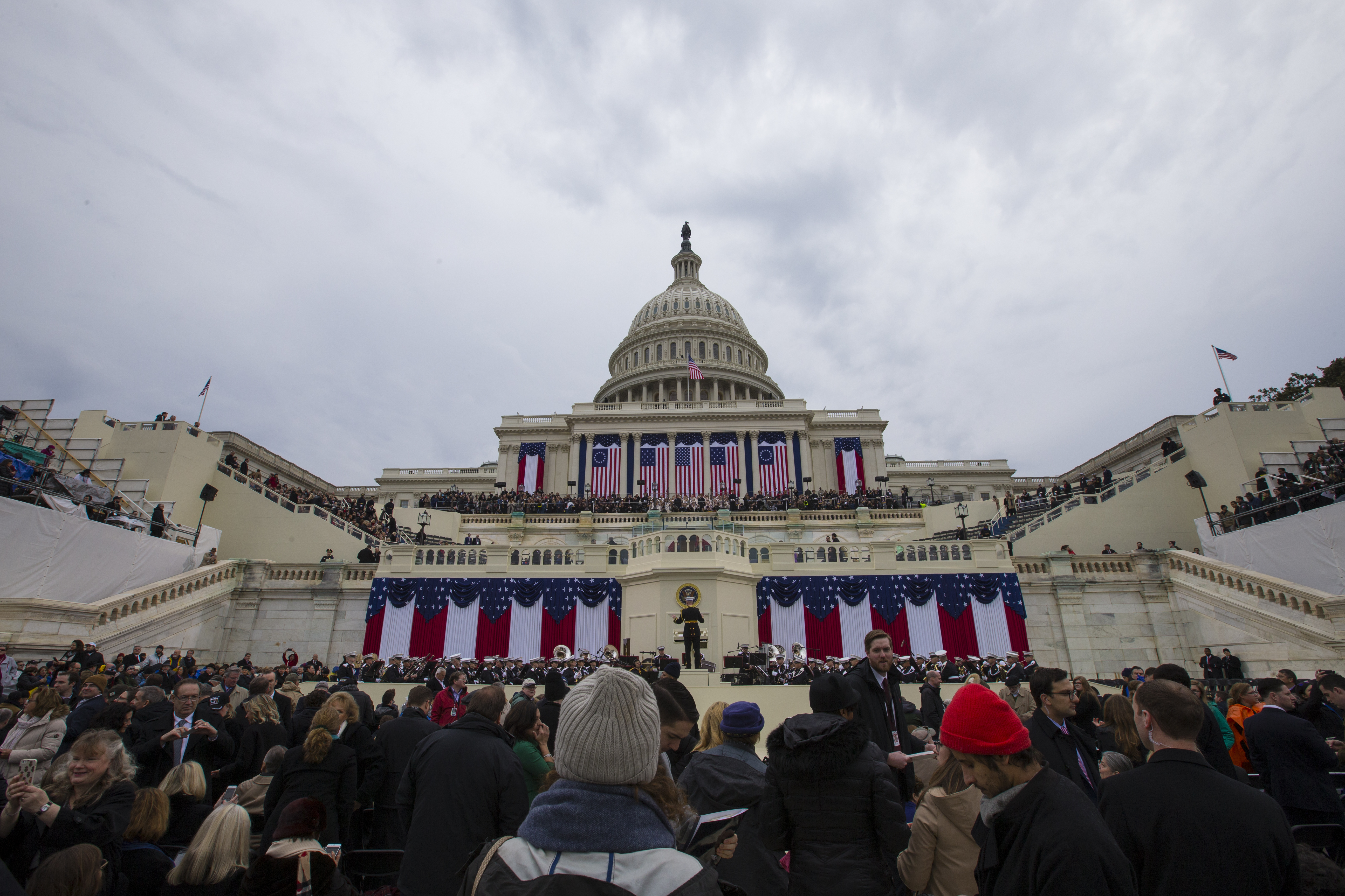 U.S. service members, civilian supporters, members of the U.S. government and special guests attend the 58th Presidential Inauguration at the U.S. Capitol Building, Washington, D.C., Jan 20, 2017. More than 5,000 military members from across all branches of the armed forces of the United States, including Reserve and National Guard components, provided ceremonial support and Defense Support of Civil Authorities during the inaugural period. (DoD photo by U.S. Marine Corps Lance Cpl. Cristian L. Ricardo)